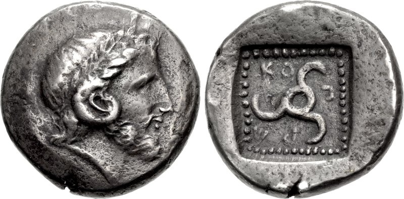 DYNASTS of LYCIA. Kuprilli. Circa 480-440 BC